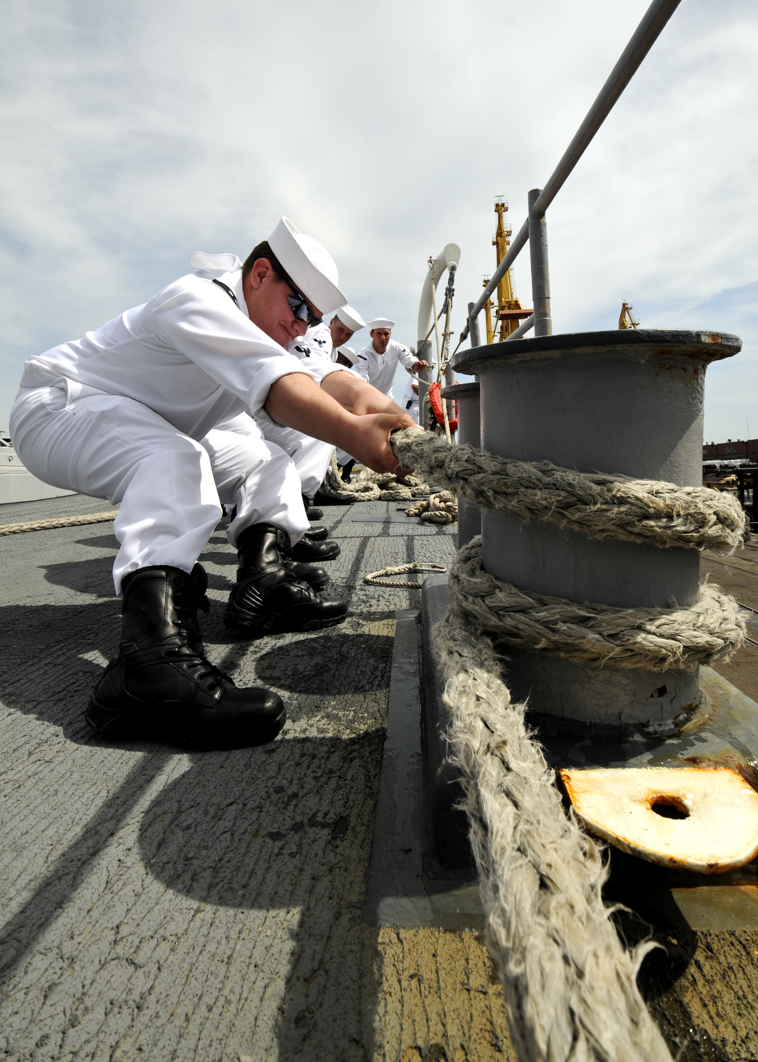 ODESSA, Ukraine (June 3, 2011) Sailors aboard the guided-missile cruiser USS Anzio (CG 68) heave a line as the ship pulls into Odessa, Ukraine, for a port visit. Anzio is deployed as part of the George H.W. Bush Carrier Strike Group in support of maritime security operations and theater security cooperation efforts in the U.S. 6th Fleet area of responsibility. (U.S. Navy photo by Mass Communication Specialist 2nd Class Brian M. Brooks/Released)